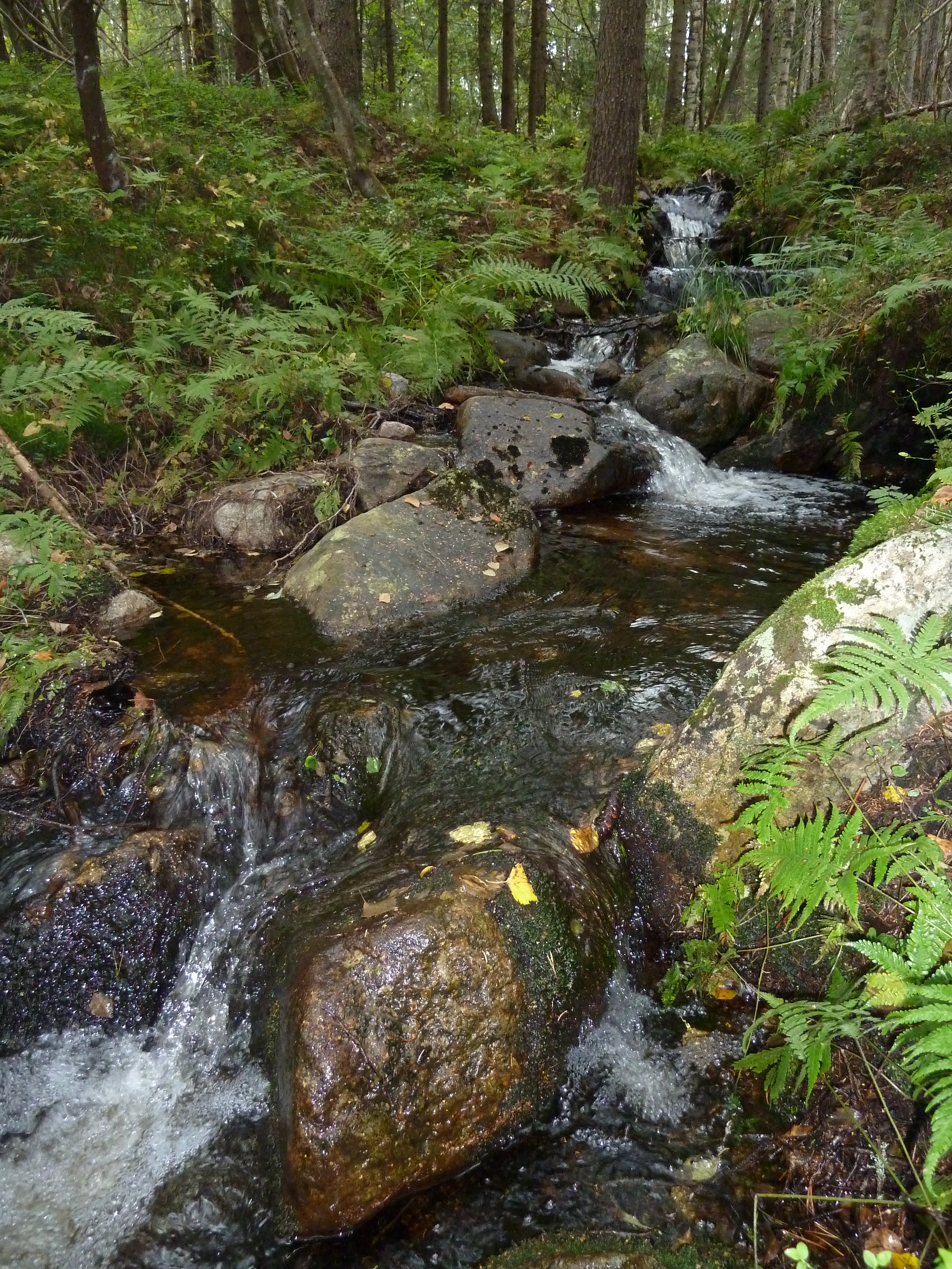 Kvarnbäcken, Själevad, Sweden